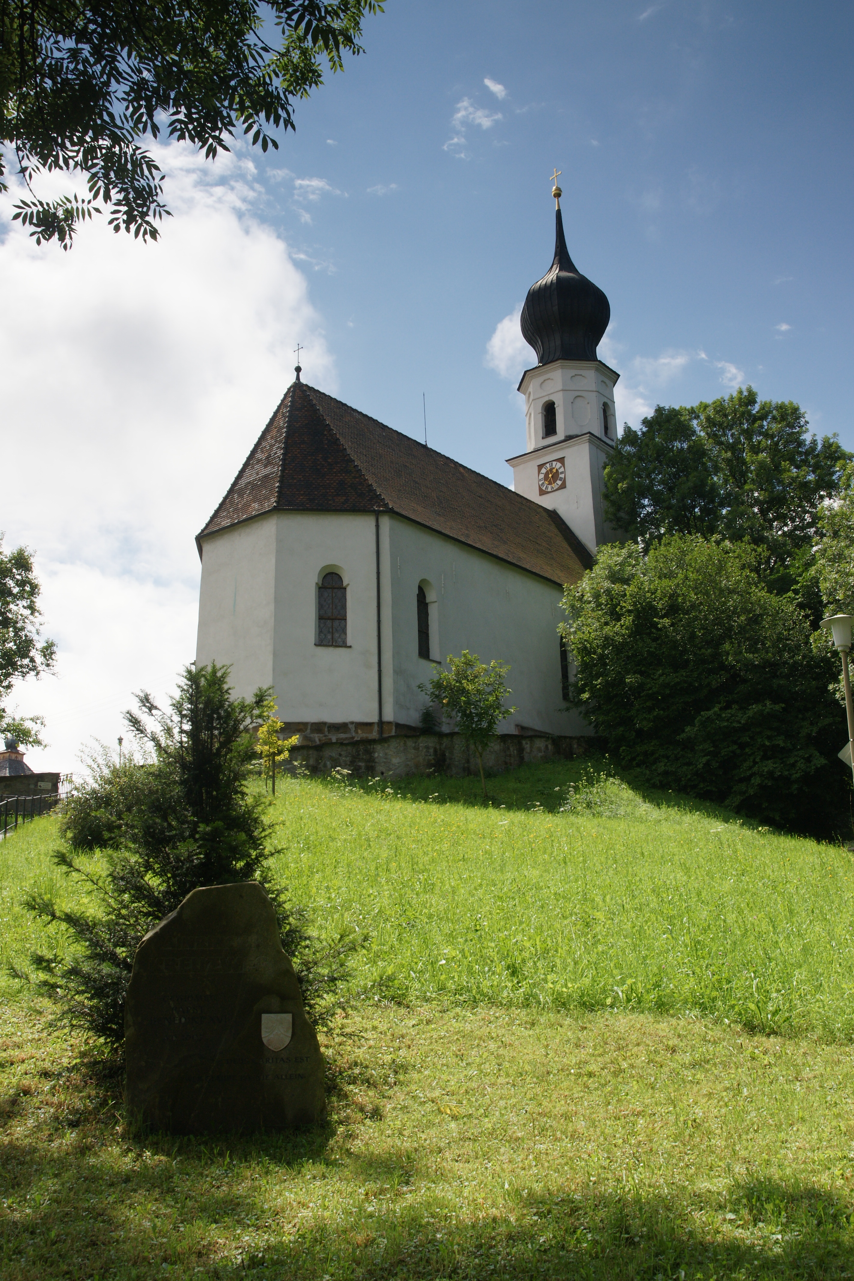 Ainring, exterior view of St Lawrence and Maurice facing south-west.